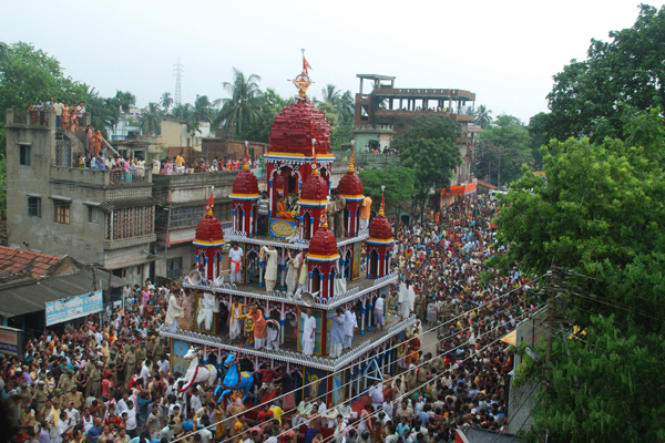 Mahesh Rath Yatra